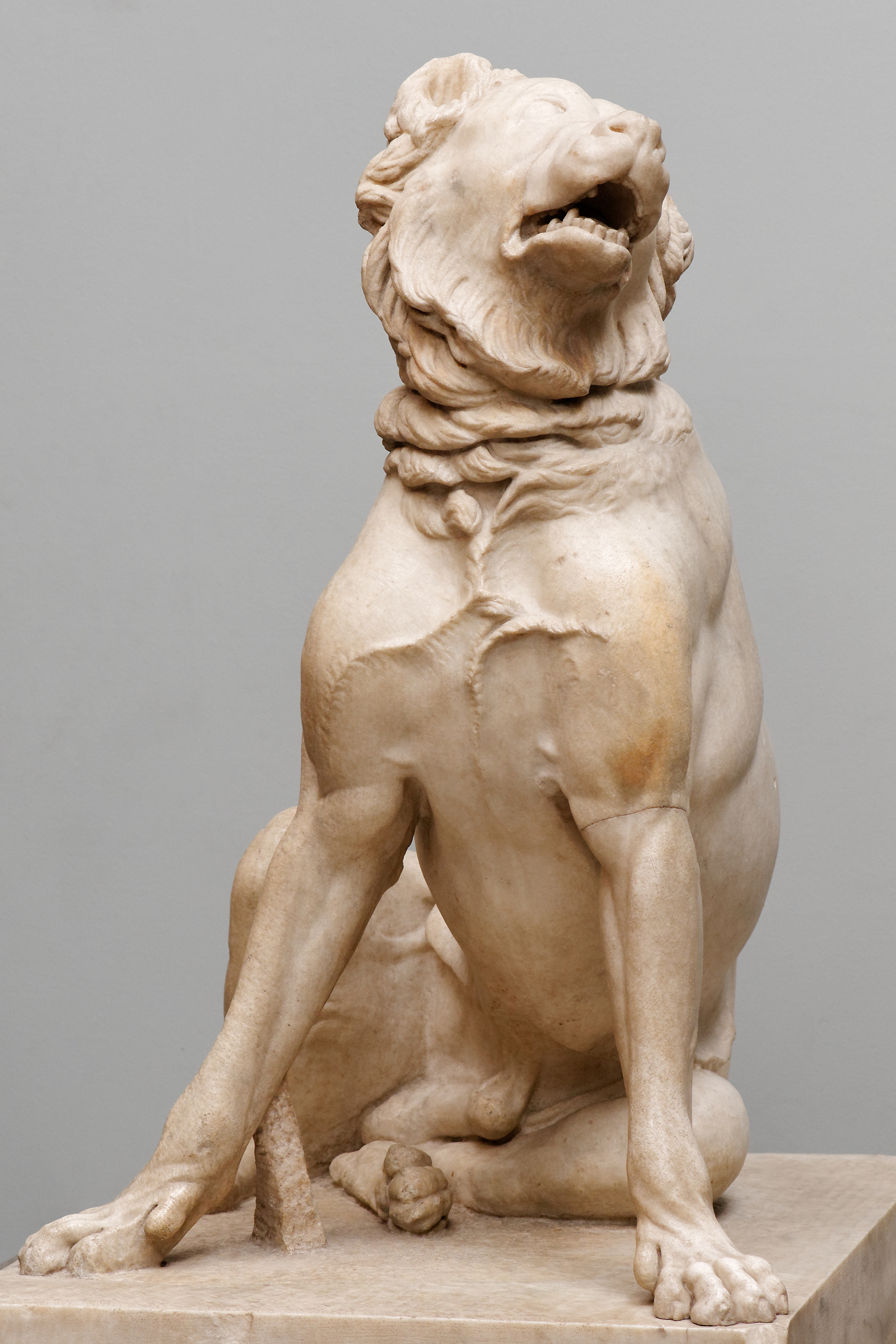 Statue of a Molossian hound. Roman copy after a Hellenistic bronze original; the muzzle and one leg are restorations.